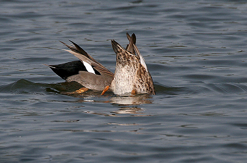 Gadwall (Anas strepera) in Kolkata, West Bengal, India.